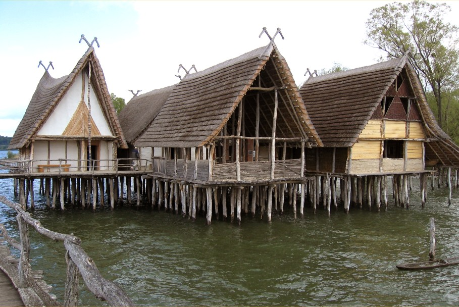 Bronze Age Village Reconstruction Location: Germany, Bodensee, Uhldingen-Mühlhofen